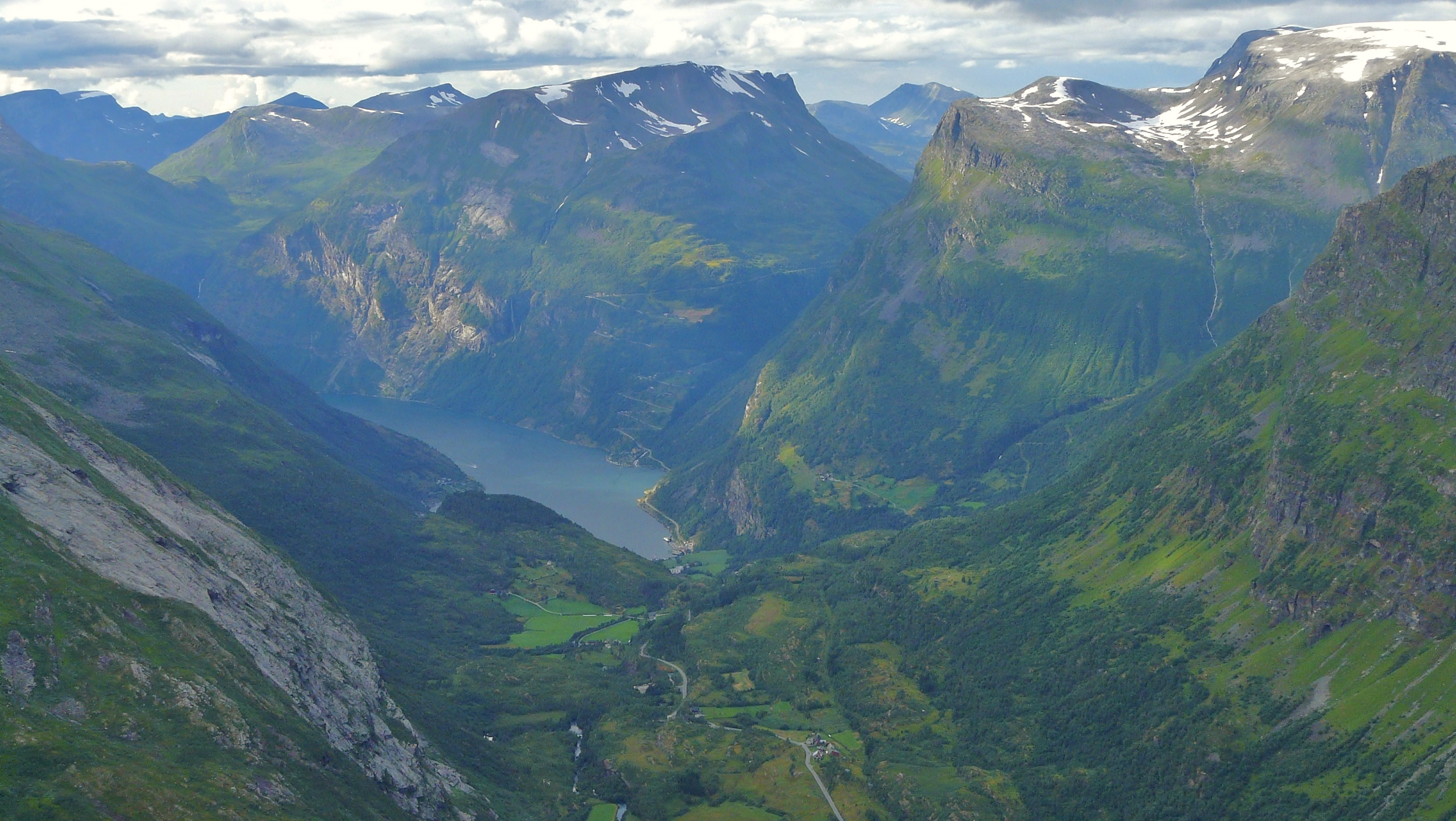 A view to Geirangerfjorden from Dalsnibba in 2008 August.